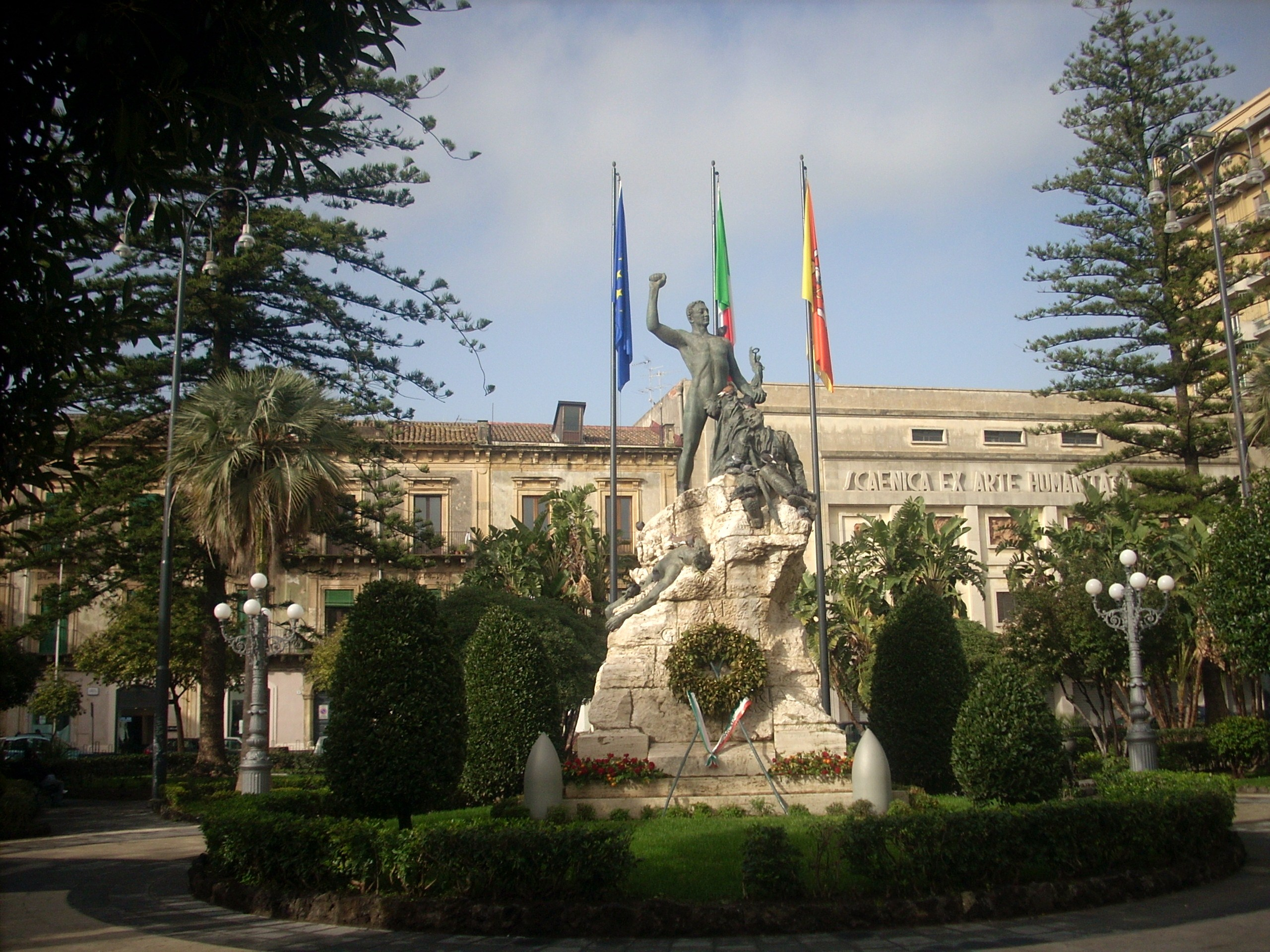 Garibaldi Square, Acireale